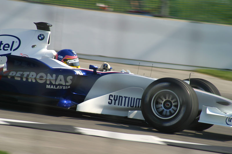 2006 United States Grand Prix, Indianapolis Indiana USA